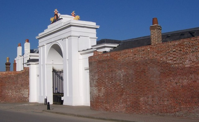 Old Gate to Clarence Yard-Gosport Old gate in Weevil Lane, which led to The Royal Clarence Victualling Yard. This establishment used to prepare bread, ale, and the slaughter and preparation of meat for the Royal Navy. It is now mostly housing and an area of maritime based businesses.